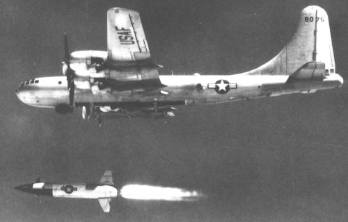 DB-50D-BO (B-50-85-BO, s/n 48-075, c/n 15884) launches XGAM-63.